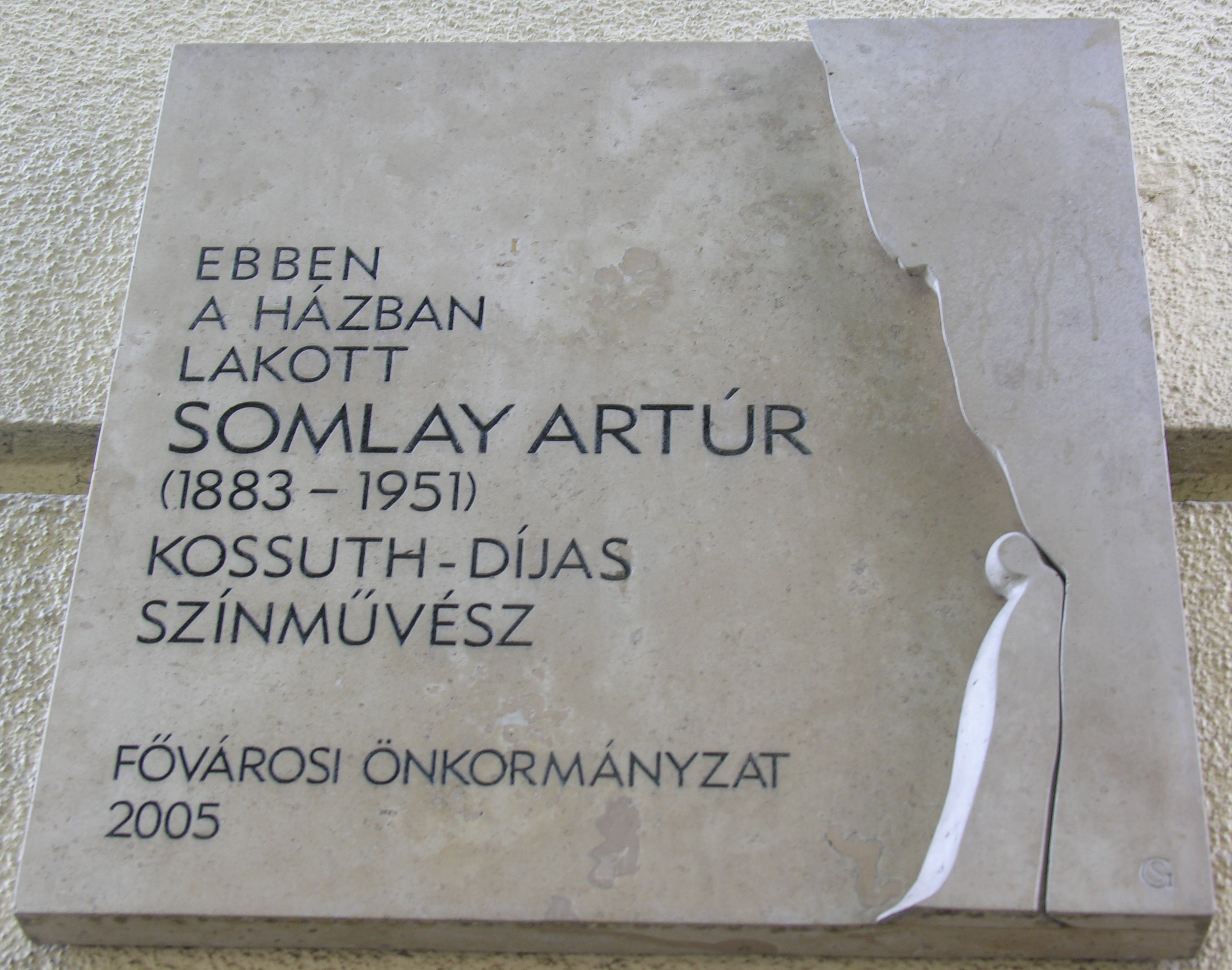 Commemorative plaque of Artúr Somlay in Budapest District V, Szent István Boulevard No 9